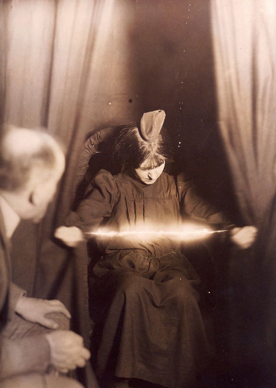 The medium Eva C.